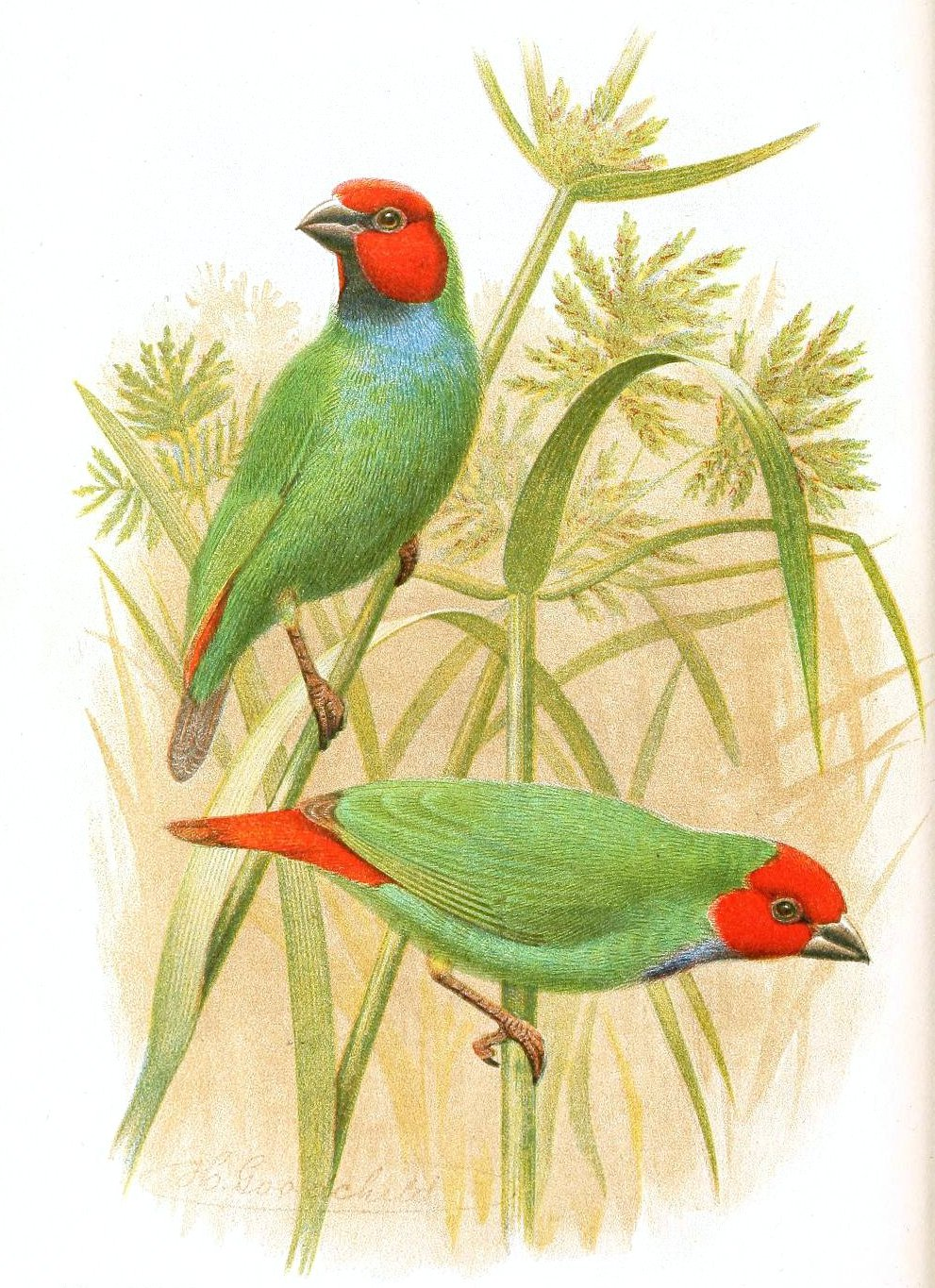 Erythrura pealei (=Erythrura pealii) by Herbert Goodchild